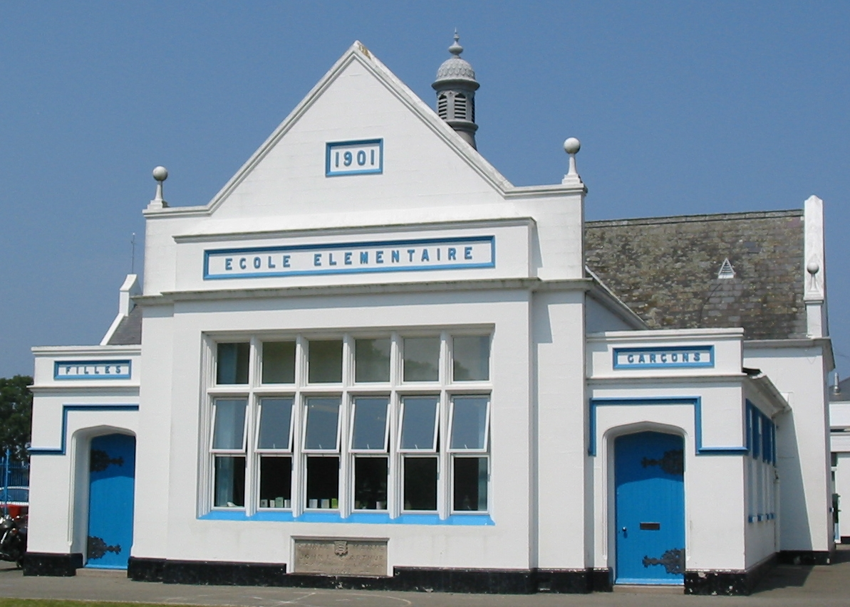 1901 building of St Mary's School, Jersey